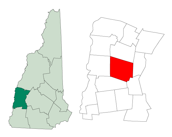 Map of a municipality in Sullivan County, New Hampshire